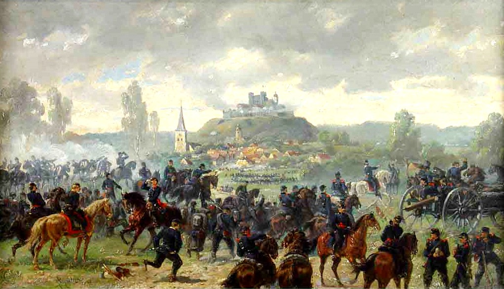 (scene from the Franco-Prussian War 1870/71; August 1870)